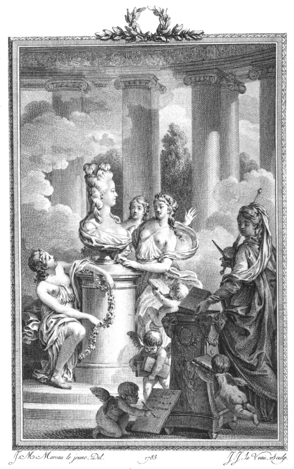 Metastasio - La Scommessa. Melpomene nel Tempio delle Grazie presenta a Maria Antonietta, Regina di Francia, Le Opere del Metastasio.